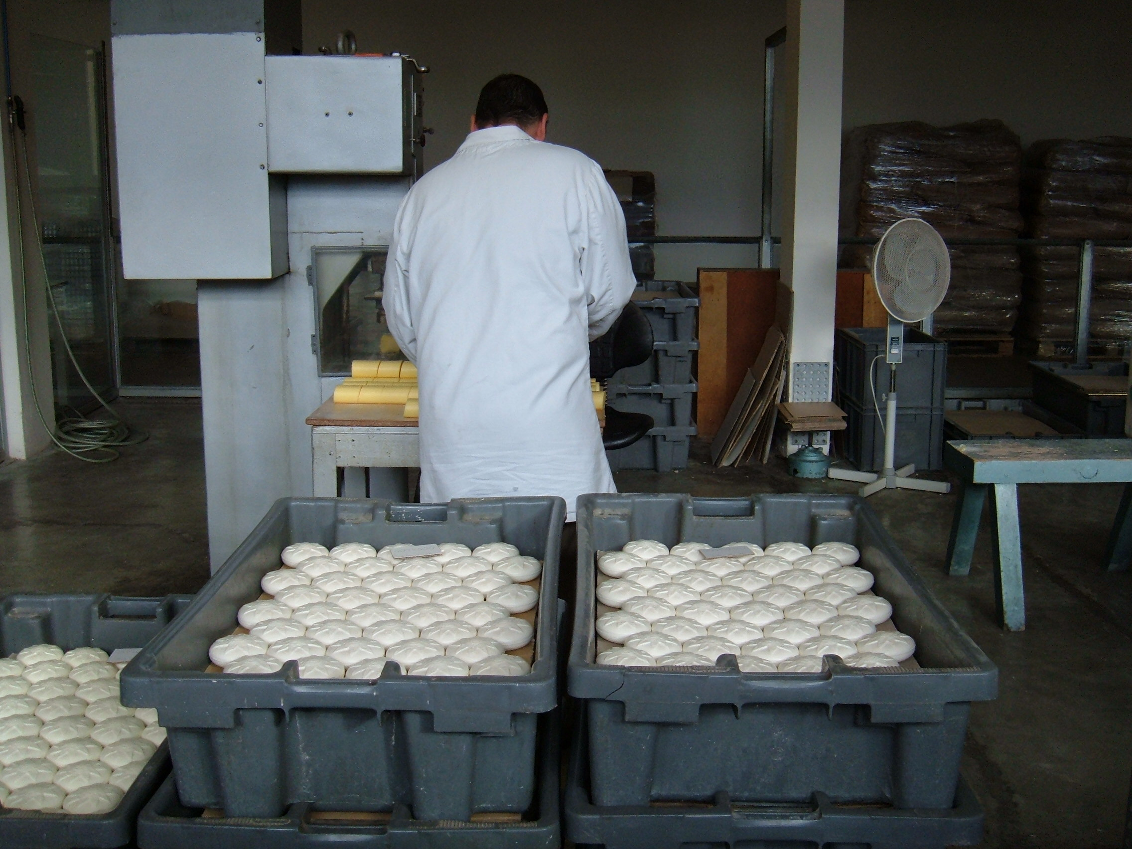 Soap ducks being made at the Fragonard perfume factory in Èze, France.